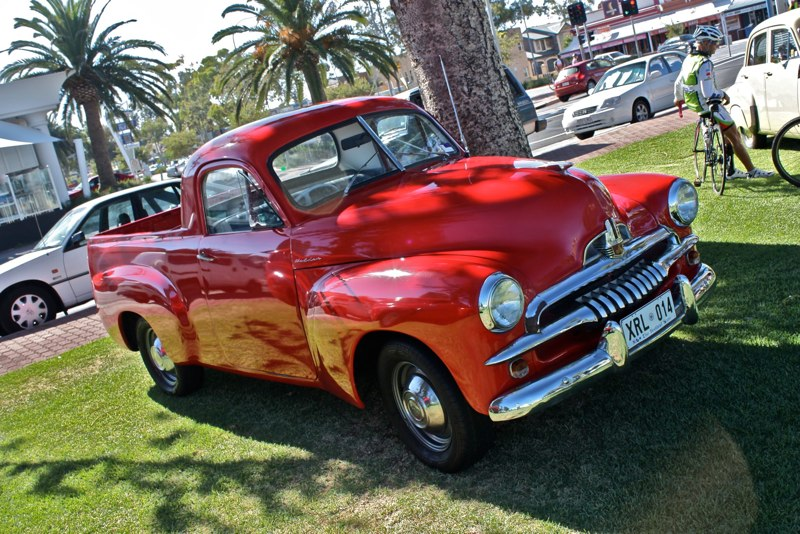 Holden FJ Utility in red at the 50th Anniversary of the Holden FB.